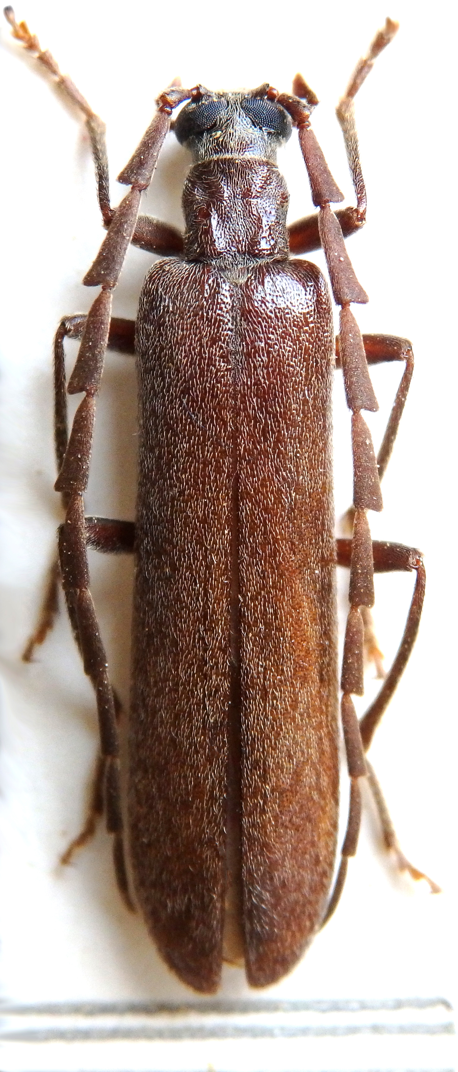 Calopus serraticornis (Oedemeridae); Vallter 2000 (Pyrenees)